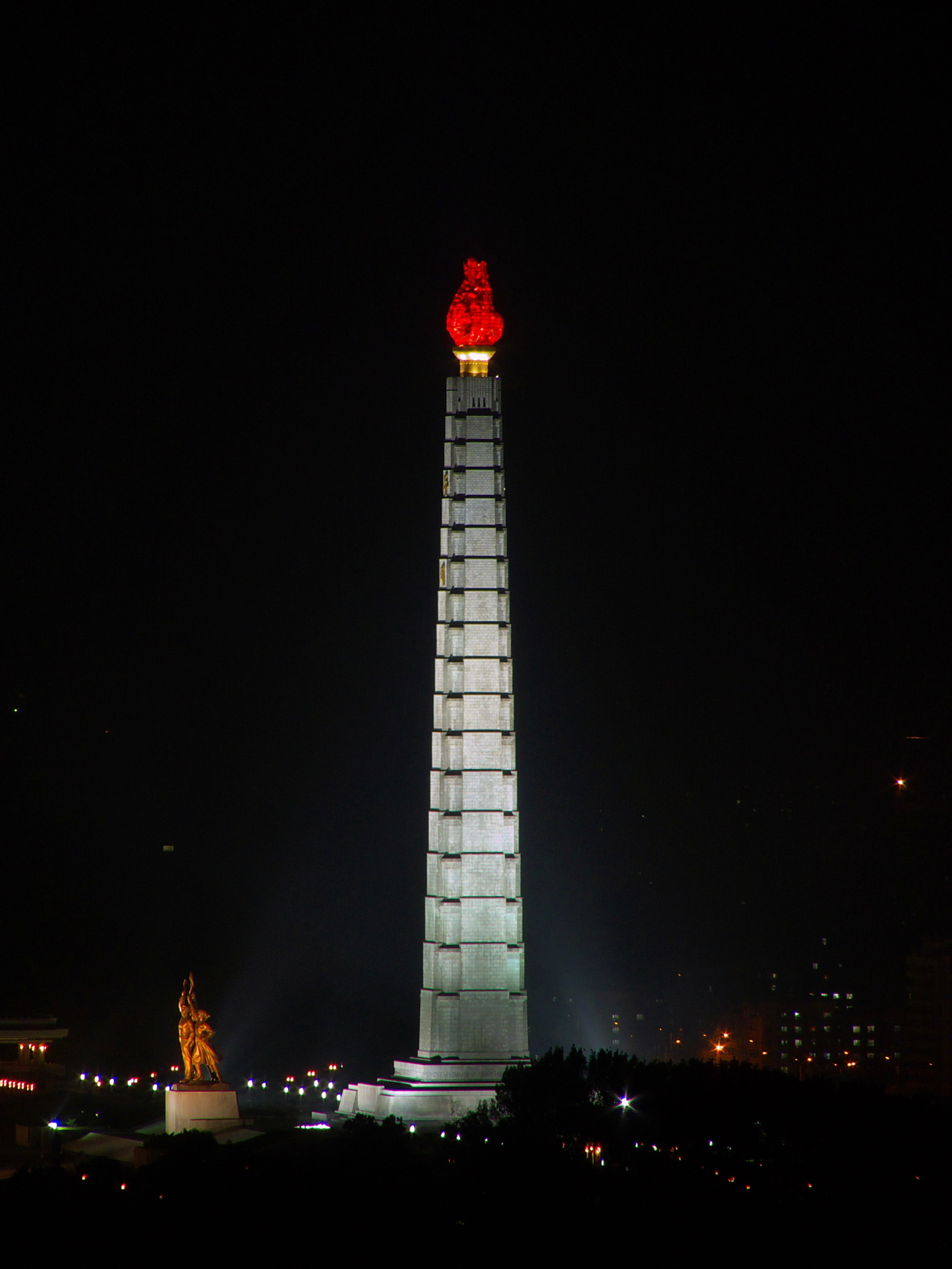 The Tower of Juche Idea was completed in 1982 to commemorate Kim Il Sung's 70th birthday. The Juche Idea, the official state ideology, developed by the man himself, is a blend of Marxism-Leninism and Autarky.